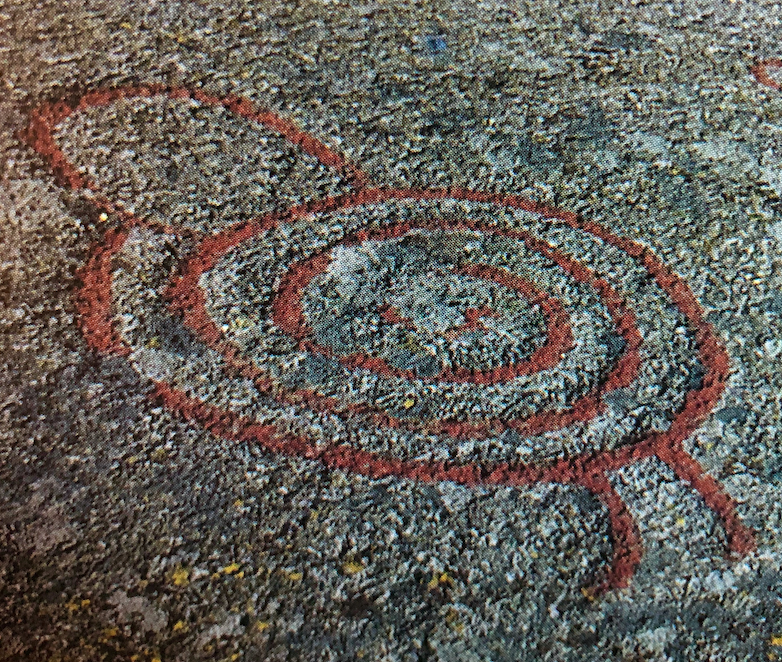 Petroglyphs at Haugen gård by Istrehågan in Sandefjord, dating to 1500-500 BCE.